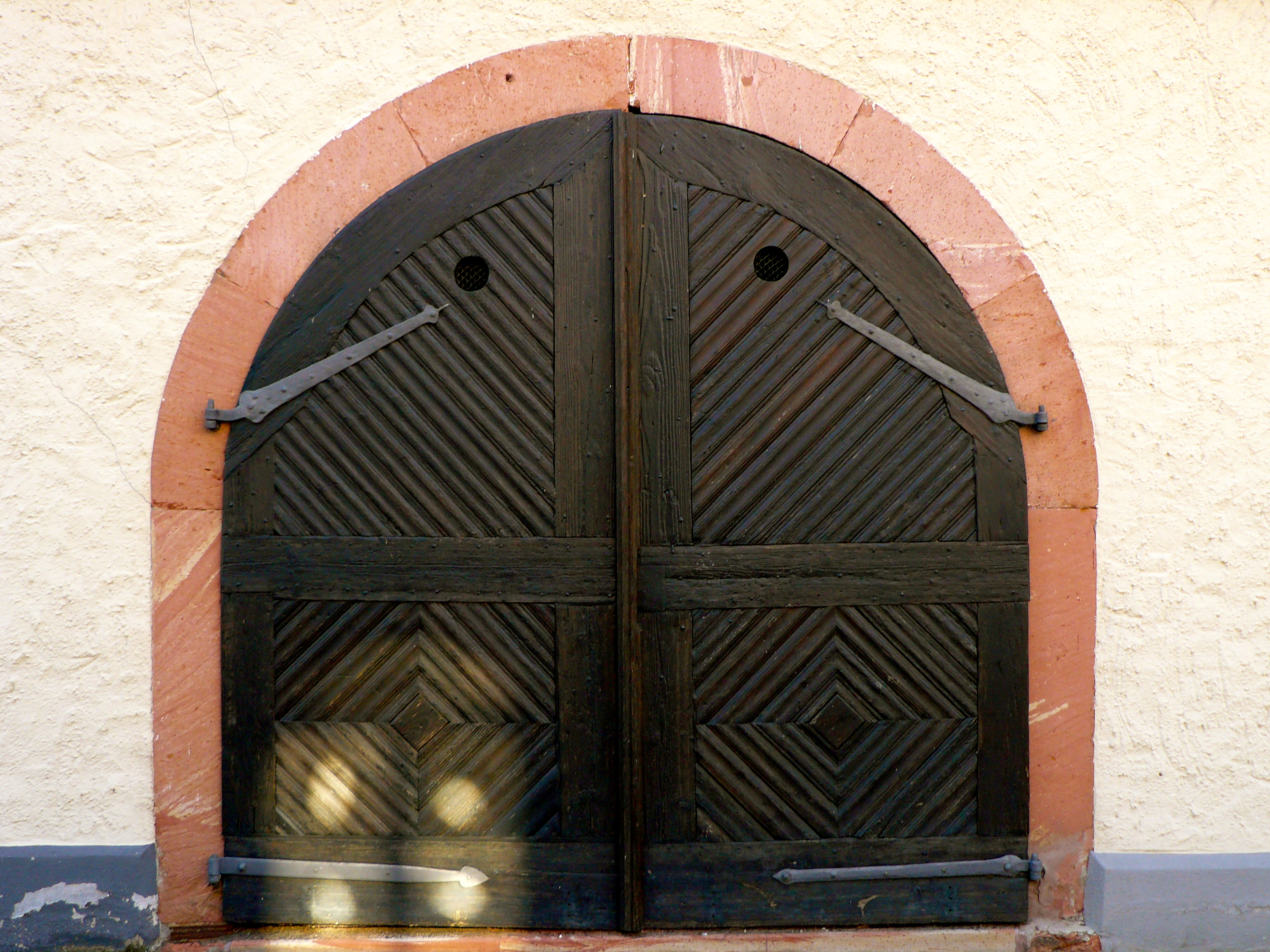 Side entrance of old town hall of Seckbach (1542–1900), Frankfurt, Hesse, Germany